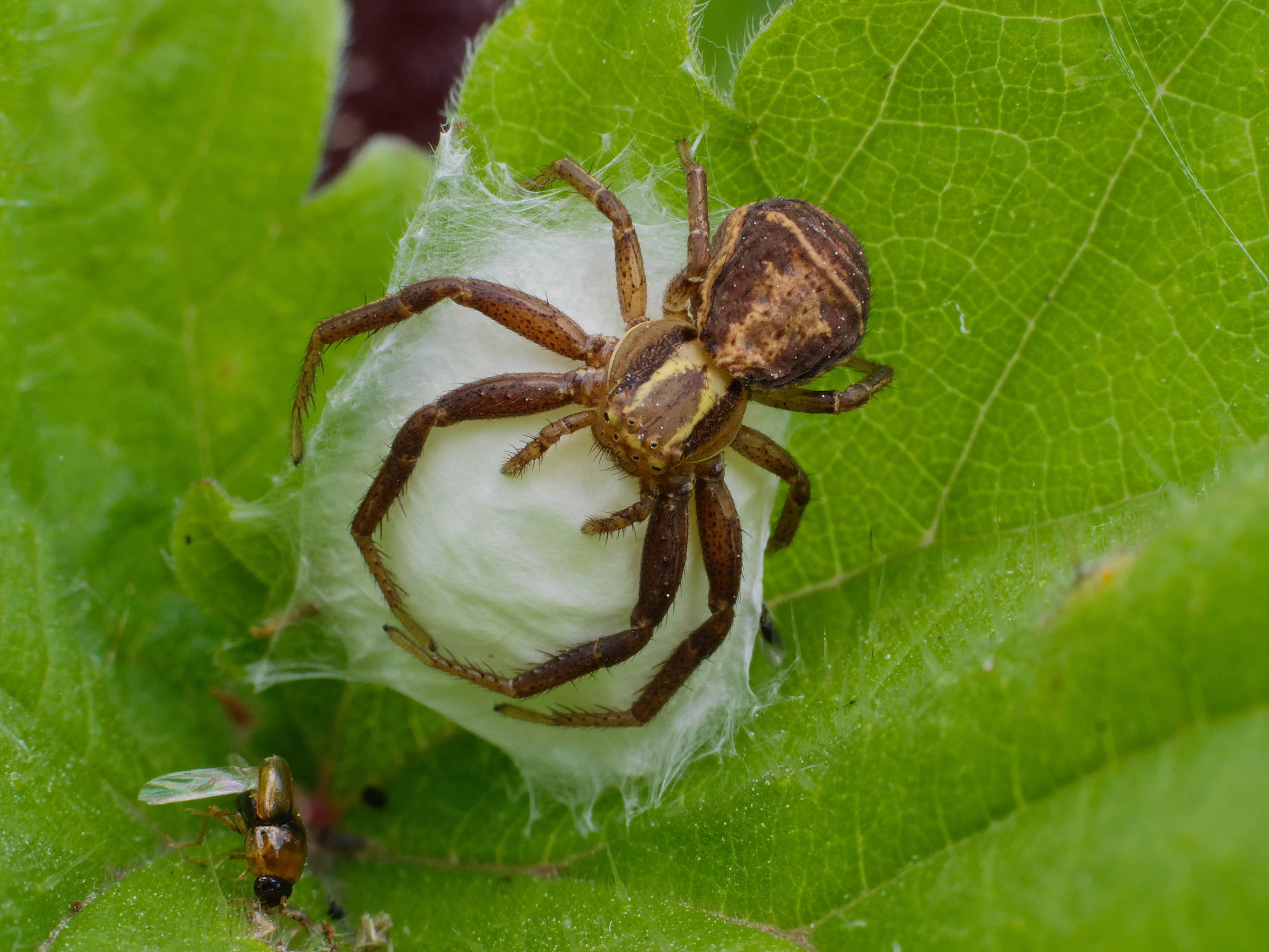 A crap spider - Xysticus cristatus, female guarding its cocoon. Taken in Mannheim, Kirschgartshäuser Schläge, Baden-Württemberg, Germany.